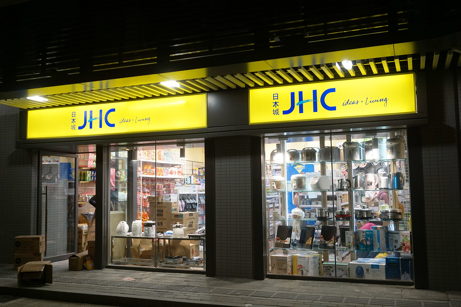 Hoi Ying Estate in Cheung Sha Wan, Hong Kong.